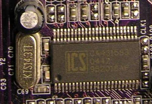 The chip and crystal resonator on the desktop computer board. The text on resonator 14,3 TI probably is related to the resonator frequency, as the ICS generator ICS952001 uses 14,318 MHz crystal ([1]). The text on the chip states 952018AF that is described in several sources as the clock generator chip ( I was unable to find such chip on the ICS web site. By Audrius Meskauskas Audriusa 12:46, 22 January 2006 (UTC)